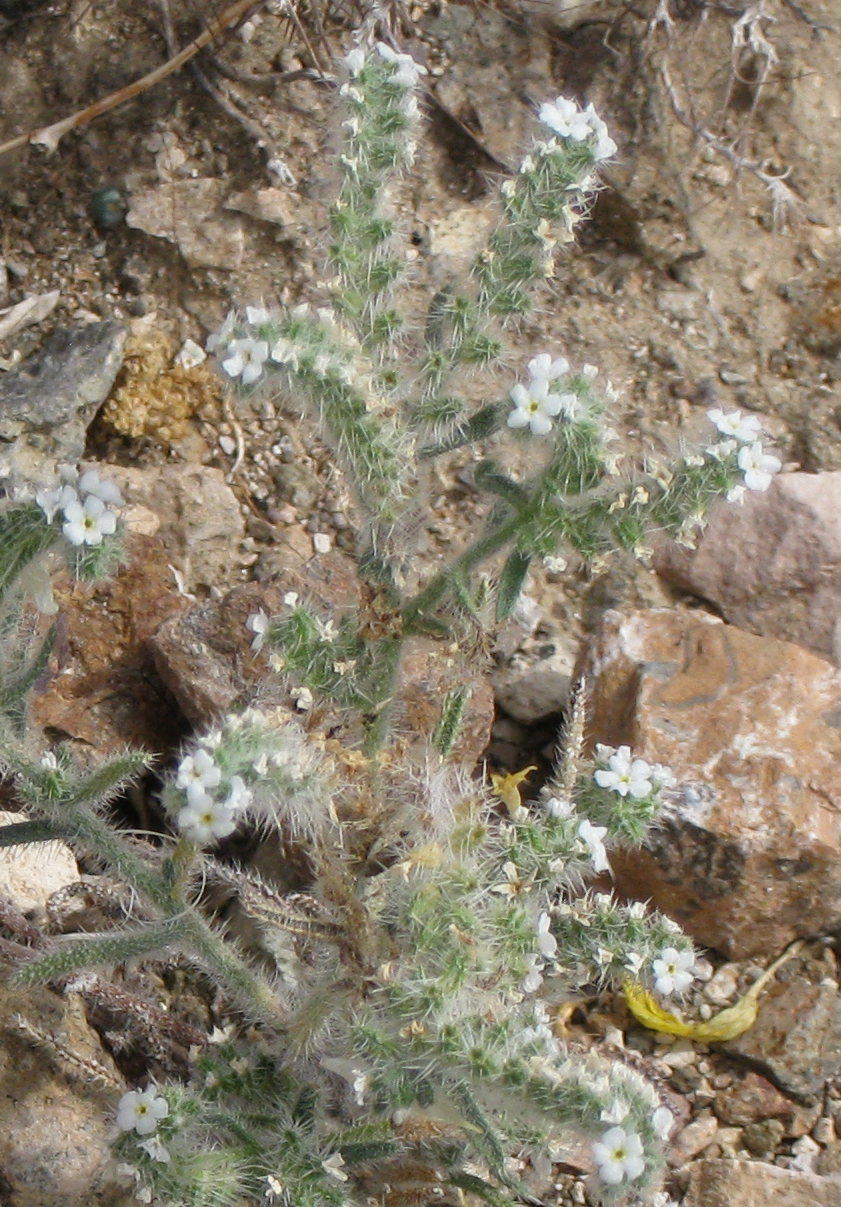 Scented cryptantha (Cryptantha utahensis) closeup, flowering in the 2016 Death Valley superbloom. Altitude 800 ft (240 m) in wash along Artist Drive.